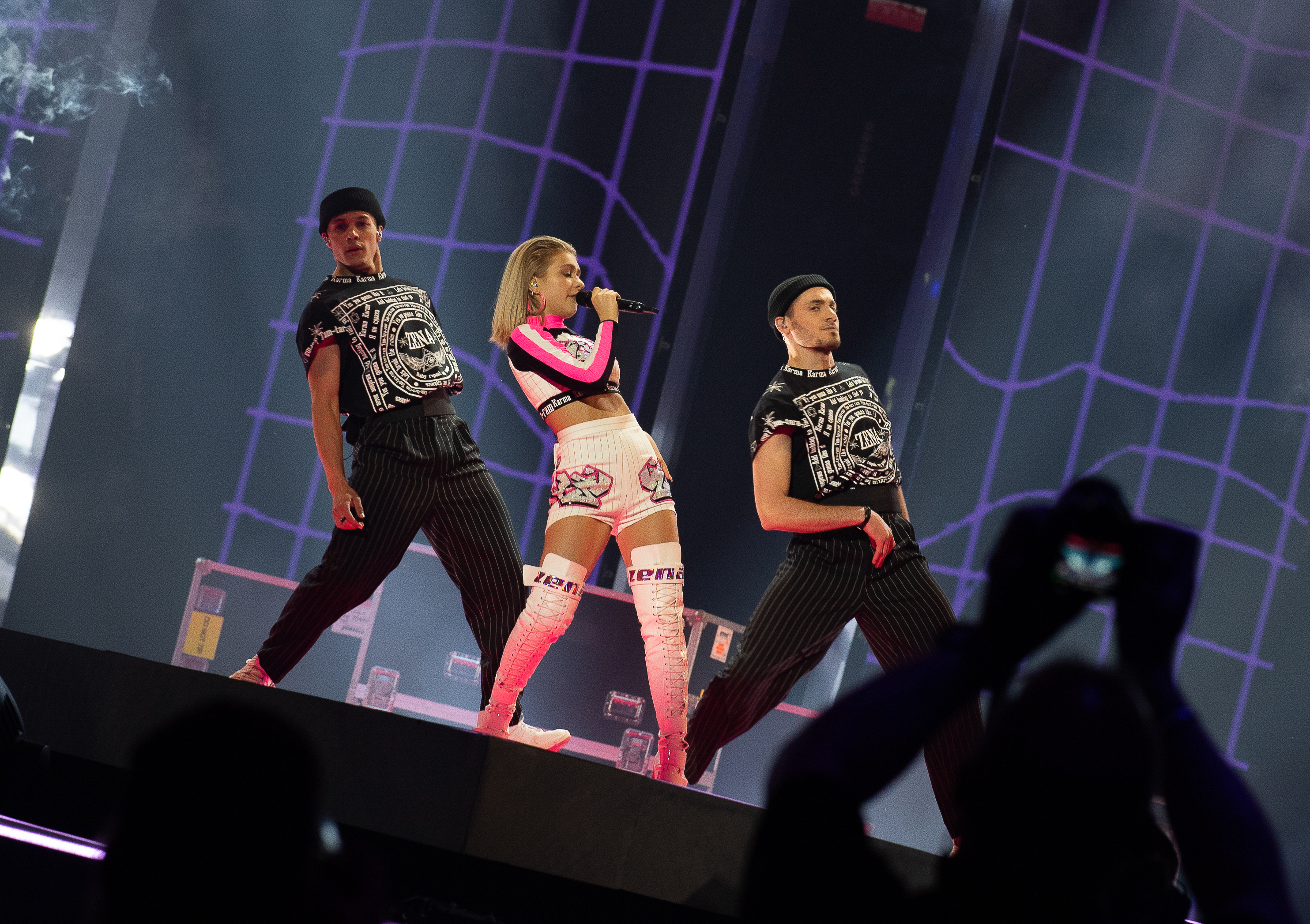 At the 2019 Eurovision Song Contest Semi-final 1 dress rehearsal